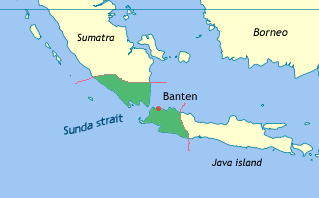 Approximate extent of the Sultanate of Banten at the death of Hasanudin (1570), controlling both sides of Sunda Strait.